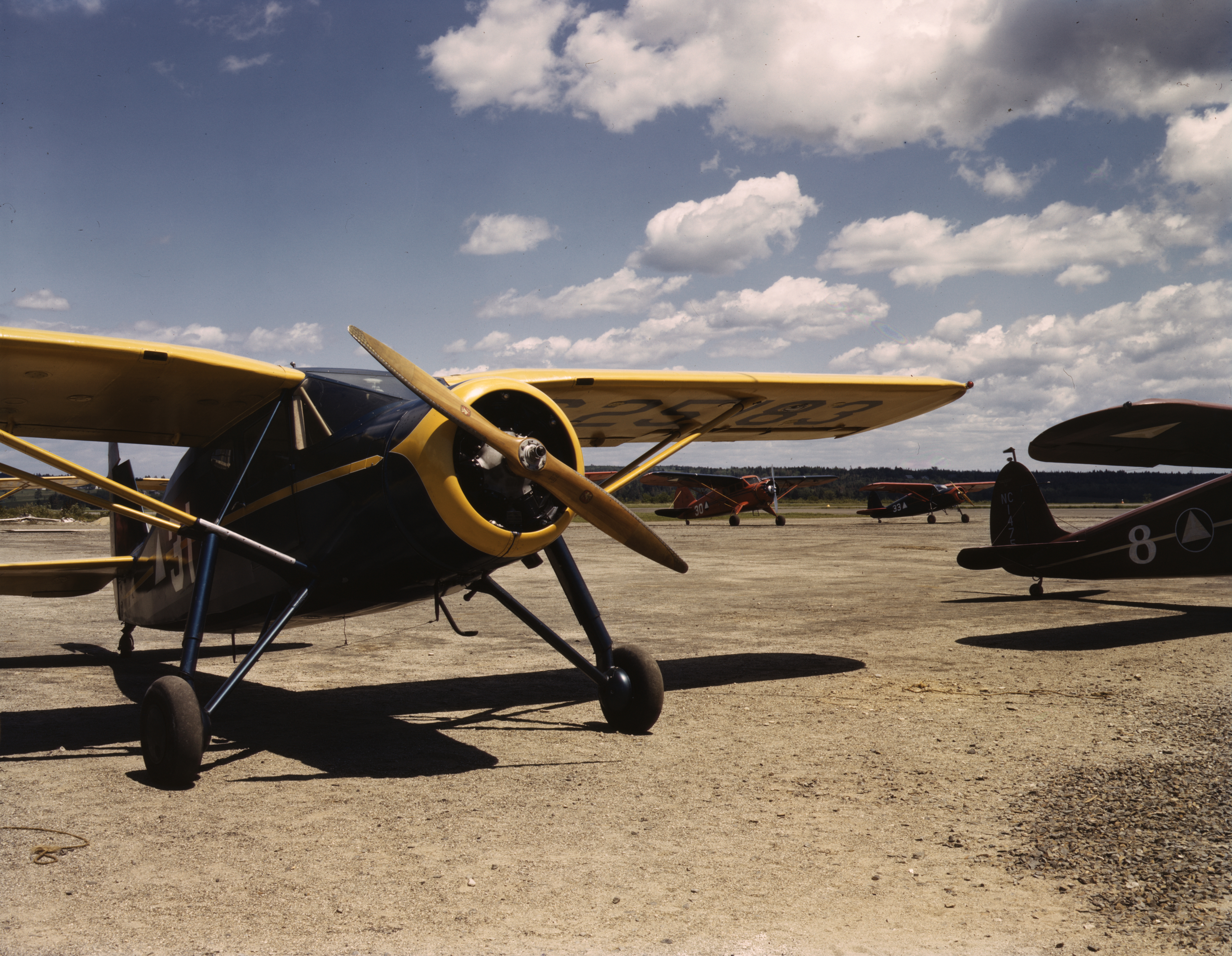 Civil Air Patrol, Coastal Patrol base #20, Bar Harbor, Maine. A Fairchild 24W-41A sits on the flight line.. Title from FSA or OWI agency caption. Transfer from U.S. Office of War Information, 1944. Repository: Library of Congress, Prints and Photographs Division, Washington, D.C. 20540 USA Part Of: Farm Security Administration - Office of War Information Collection 12002-46 (DLC) 93845501 Persistent URL: Call Number: LC-USW36-770